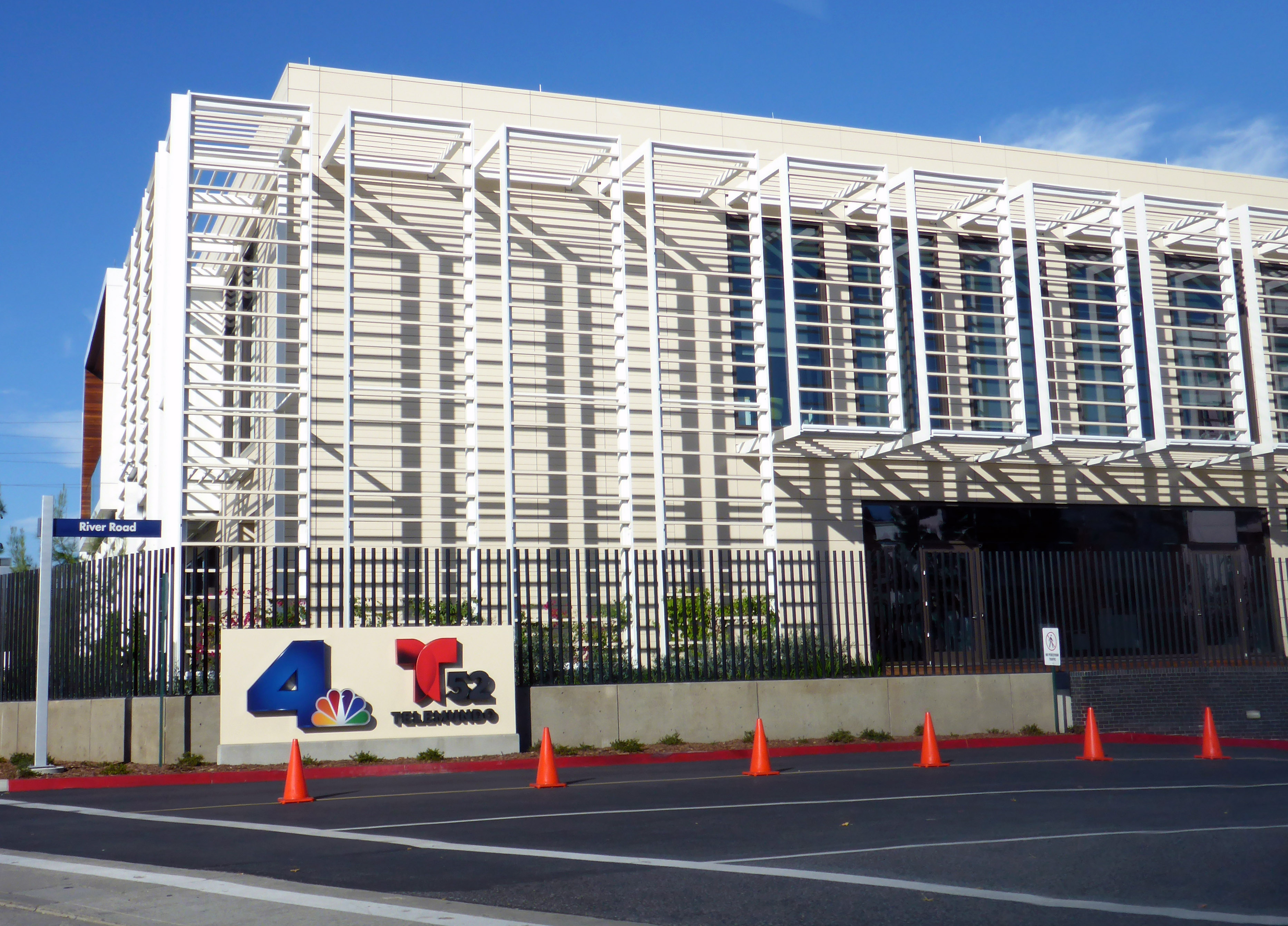 The home of KNBC channel 4 and KVEA channel 52 next to the Universal Studios lot in Universal City, California. Photographed by user Coolcaesar on November 9, 2014.